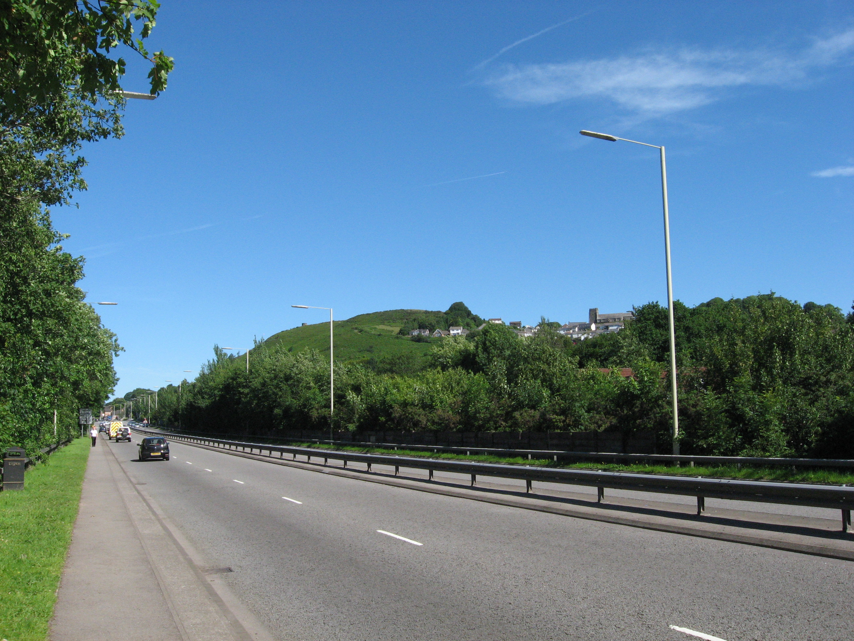 The A4119 near Llantrisant, Wales